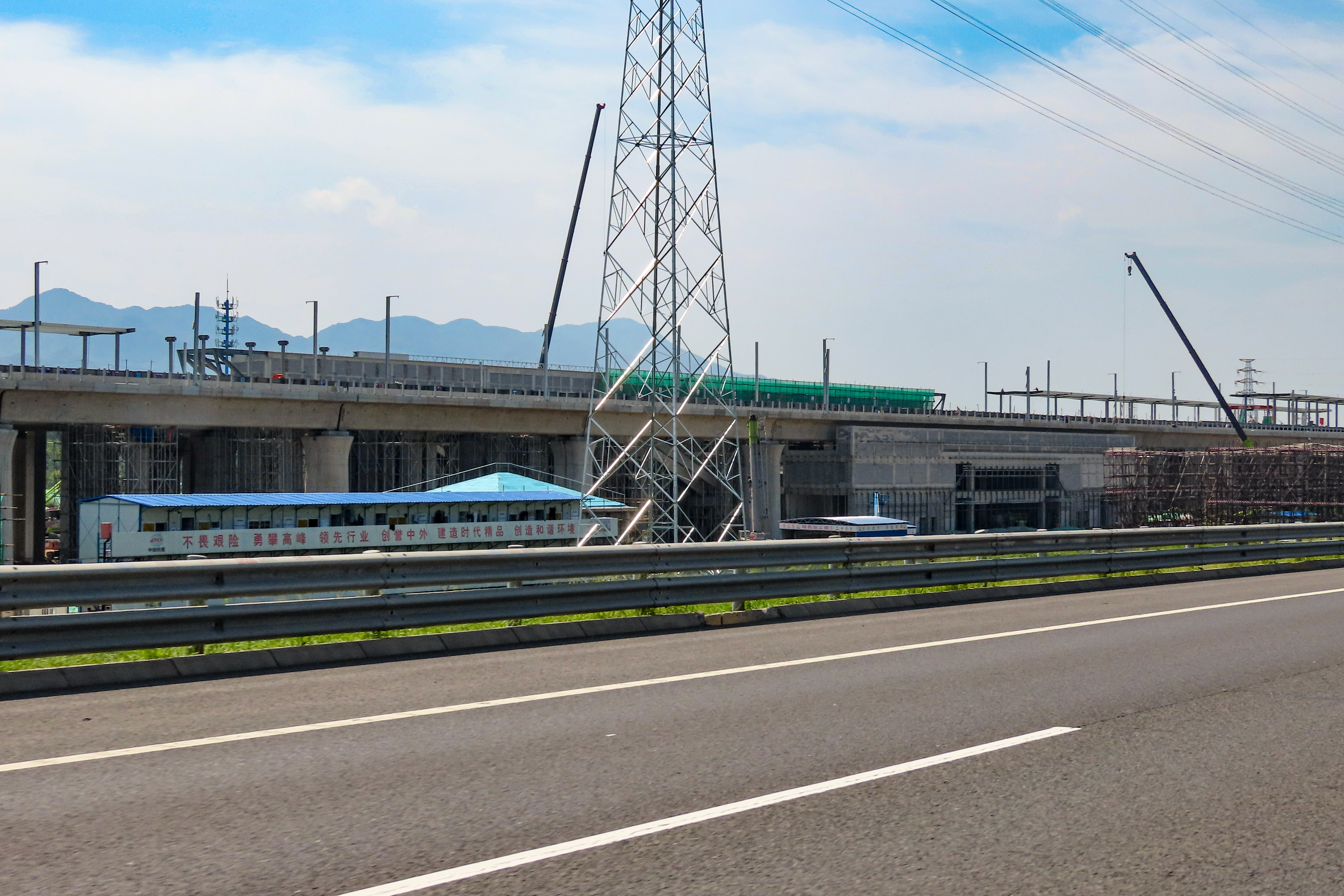 4 months to go?